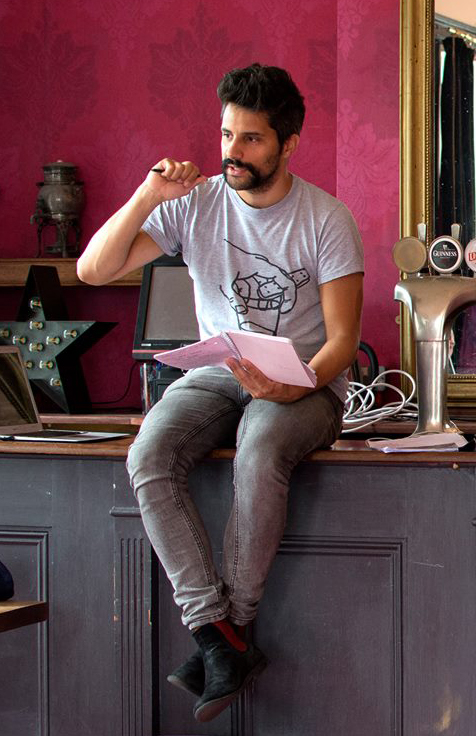 Rehearsing at the Rosemary Branch Theatre.